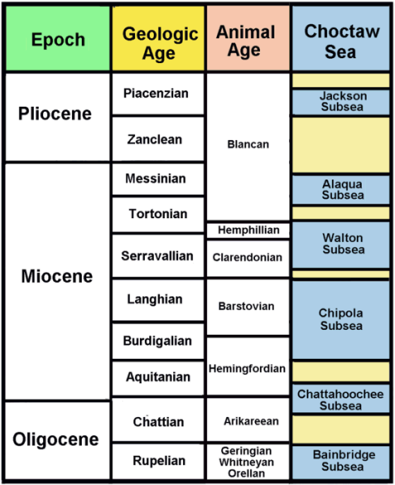 Table displaying Choctaw Sea and subseas with geologic periods and NALMA periods.